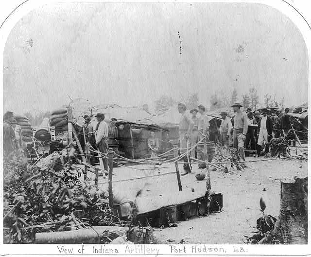 This is an image of Indiana soldiers with cannon behind breastworks at the Siege of Port Hudson, Louisiana, in 1863. The unit shown is almost certainly part of the 1st Indiana Heavy Artillery commanded by Col. John A. Keith, as that is the only Indiana artillery unit listed in the Union order of battle at Port Hudson.